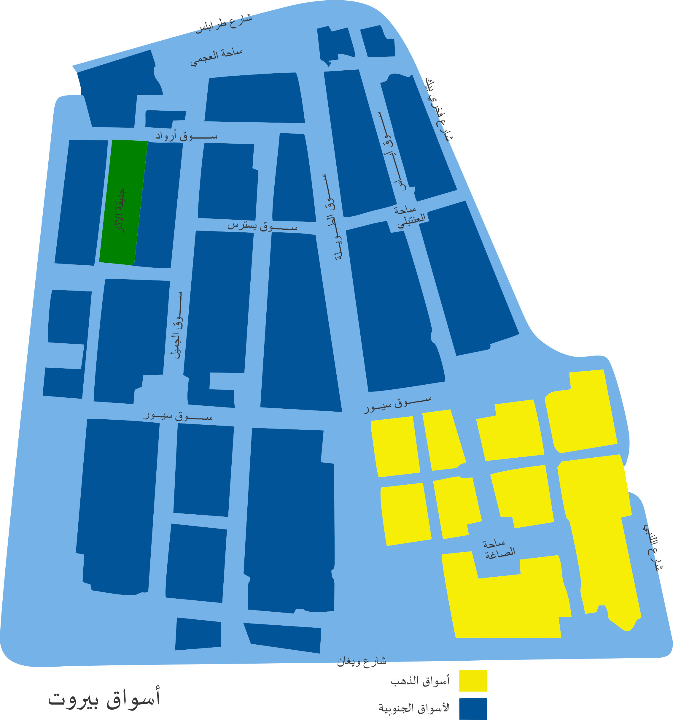 Beirut Souq Streets and Areas